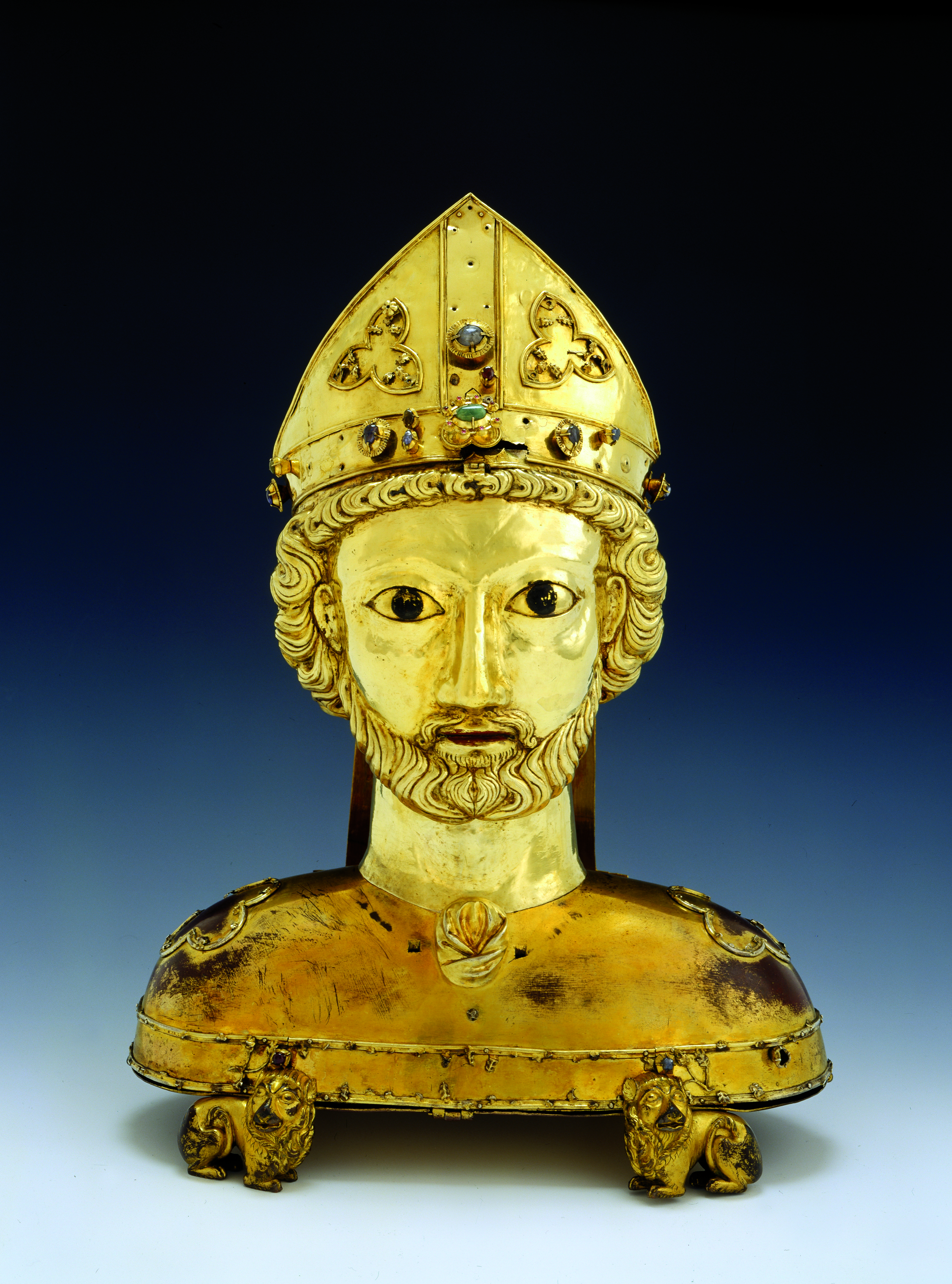 Basle, after 1270; Silver and copper, embossed, engraved, gilded; height 49 cm; Inv. 1882.87.